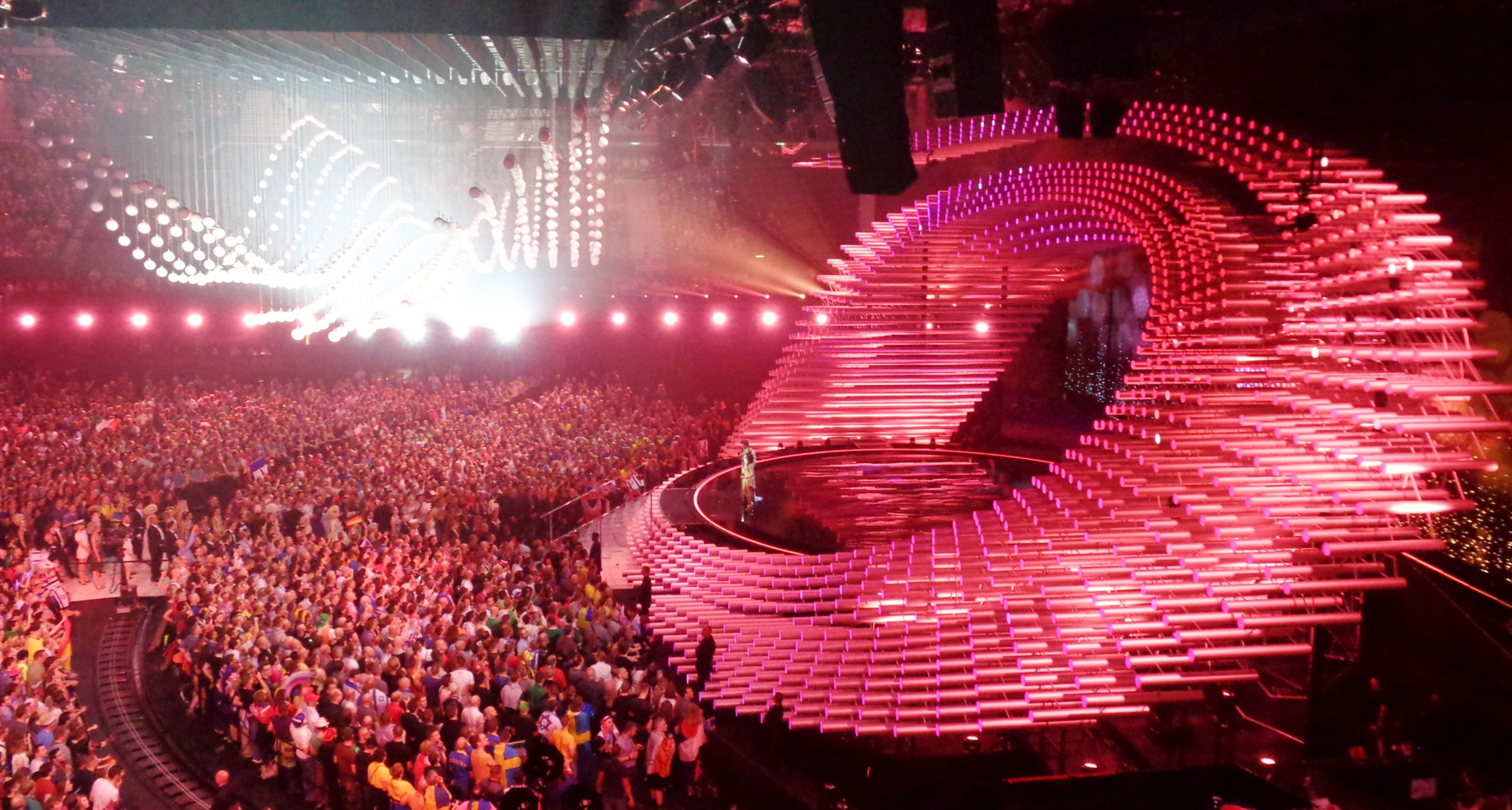 Stage of the 2015 Eurovision Song Contest during the second semi-final.